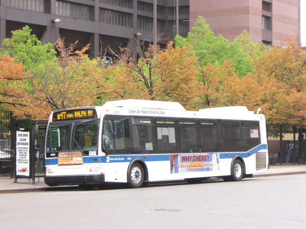 MTA New York City Bus #4525, carrying a mosque protest ad, picks up customers at Woodhull Hospital in Brooklyn, NY, bound for Kings Plaza.